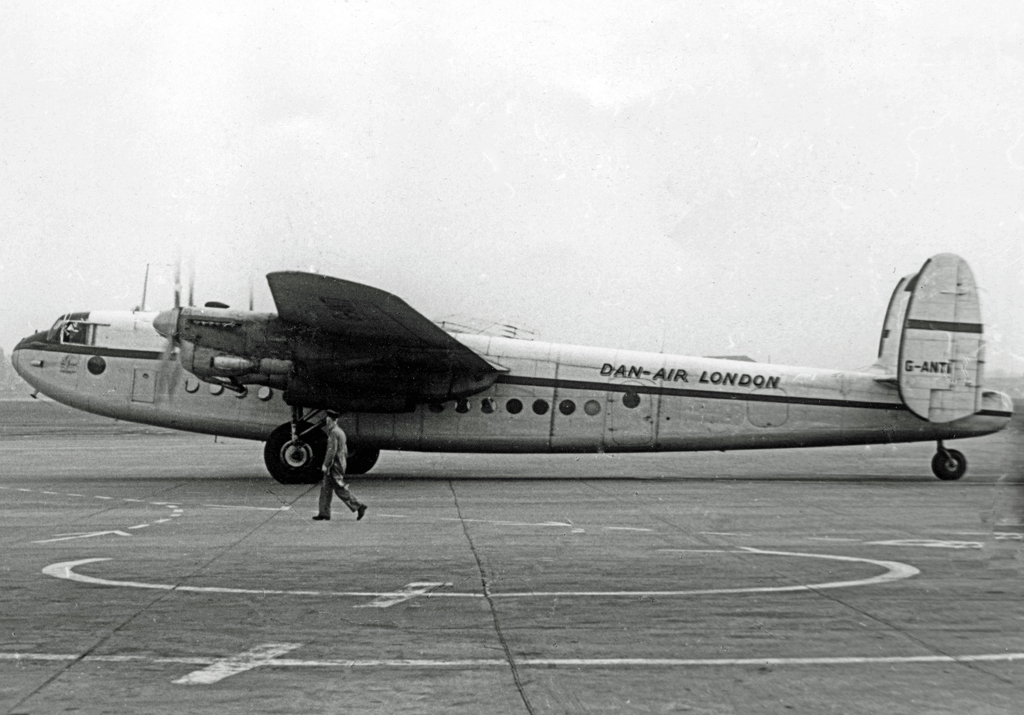 Avro York of Dan-Air at Manchester (Ringway) Airport in 1960